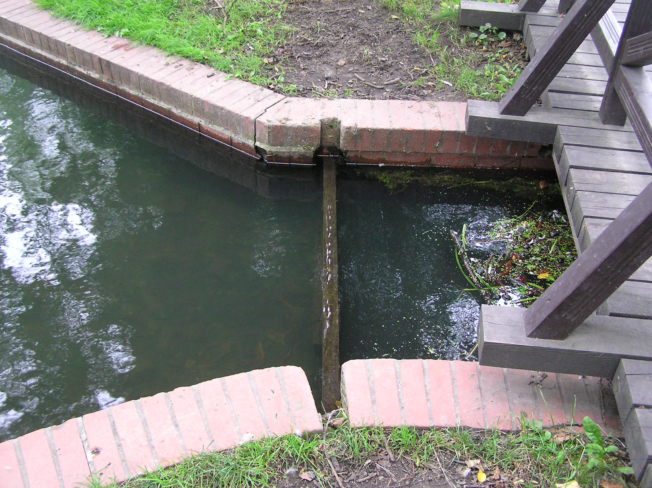 Poland, Wrocław, Brochowski Park, Brochówka River, pond in park